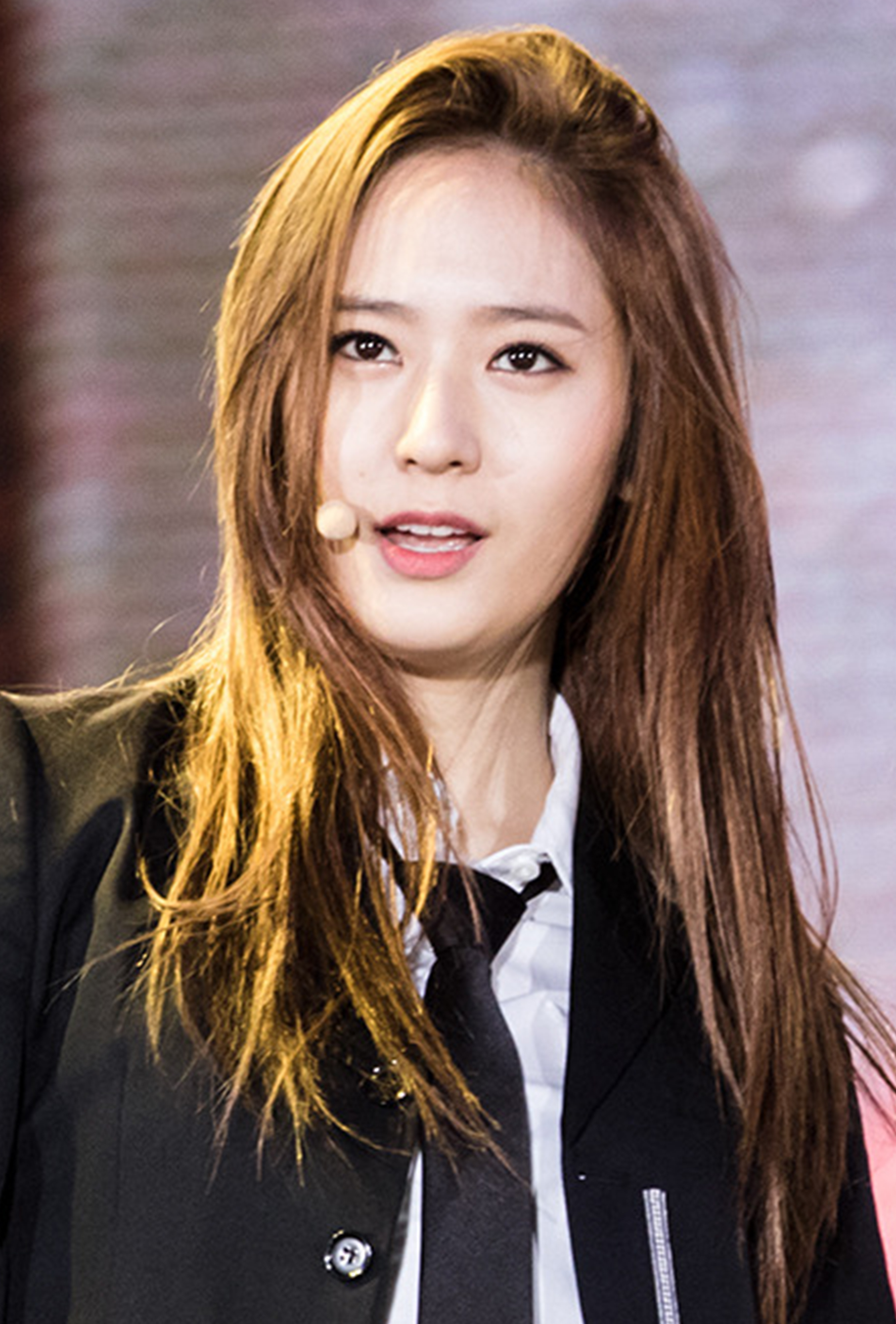 Krystal Jung at Jeju K-Pop Festival on October 25, 2015.